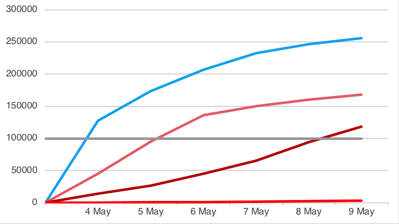 Signatures received by each candidate between 4 May and 9 May 2018 for the Turkish presidential election on 24 June